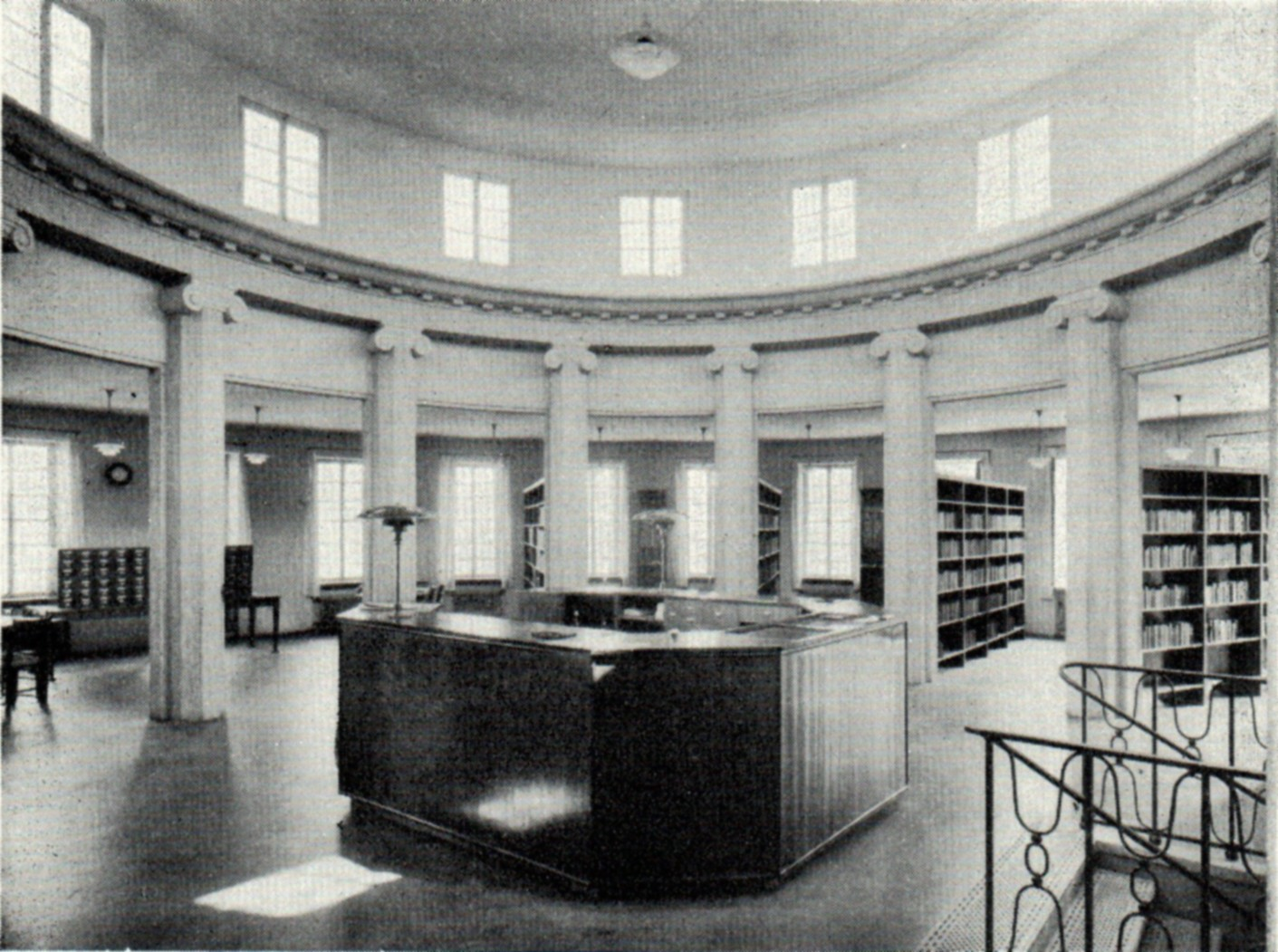 Interior of Linköping public library at the opening in 1928